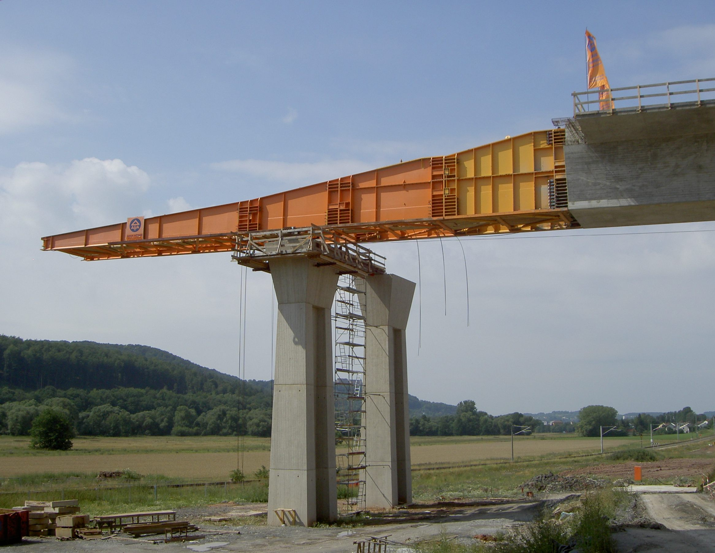 Nose of the bridge over the Itz in Germany. Incremental launching method used in bridge construction.